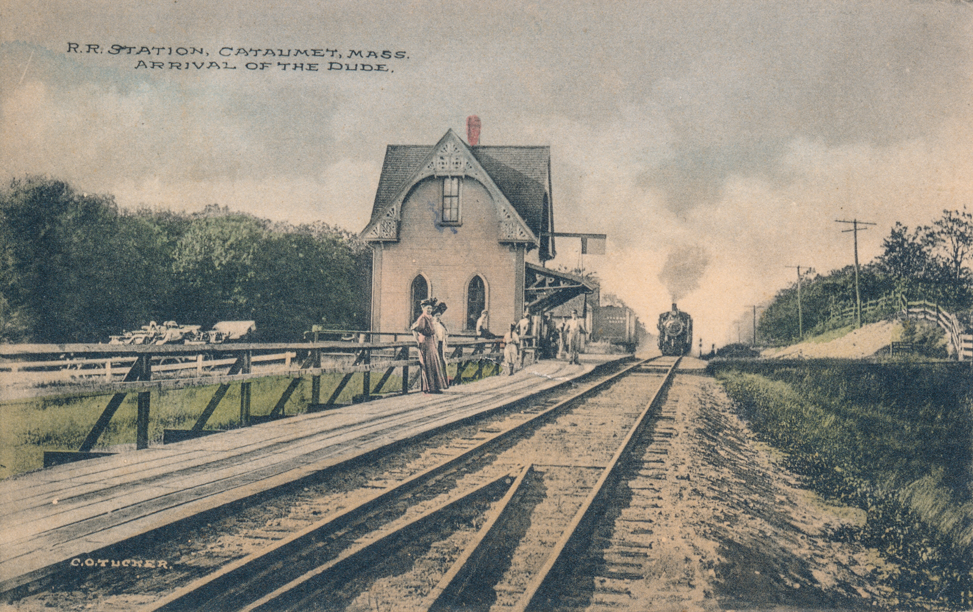 Early postcard showing the original railroad station in Cataumet, Massachusetts on Cape Cod. The postmark on the rear of the card is dated November 16, 1909.